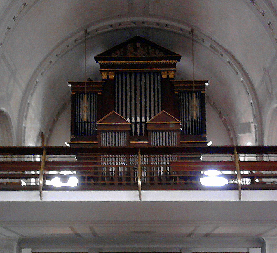 Hugo-Mayer-organ of the St. Sebastian's church in Eppelborn, Saarland, Germany